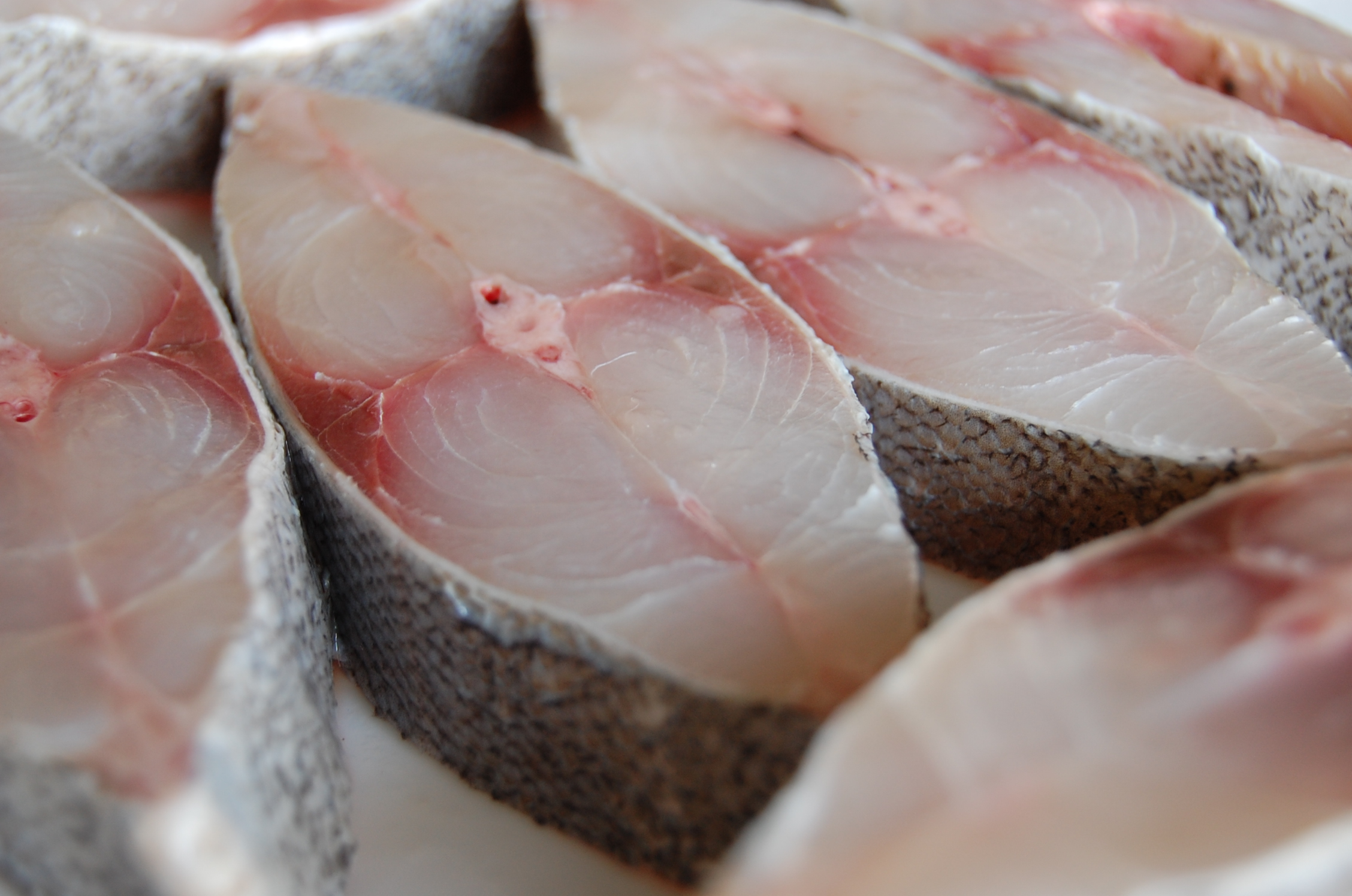 Black Pomfret [ Parastromateus niger ]